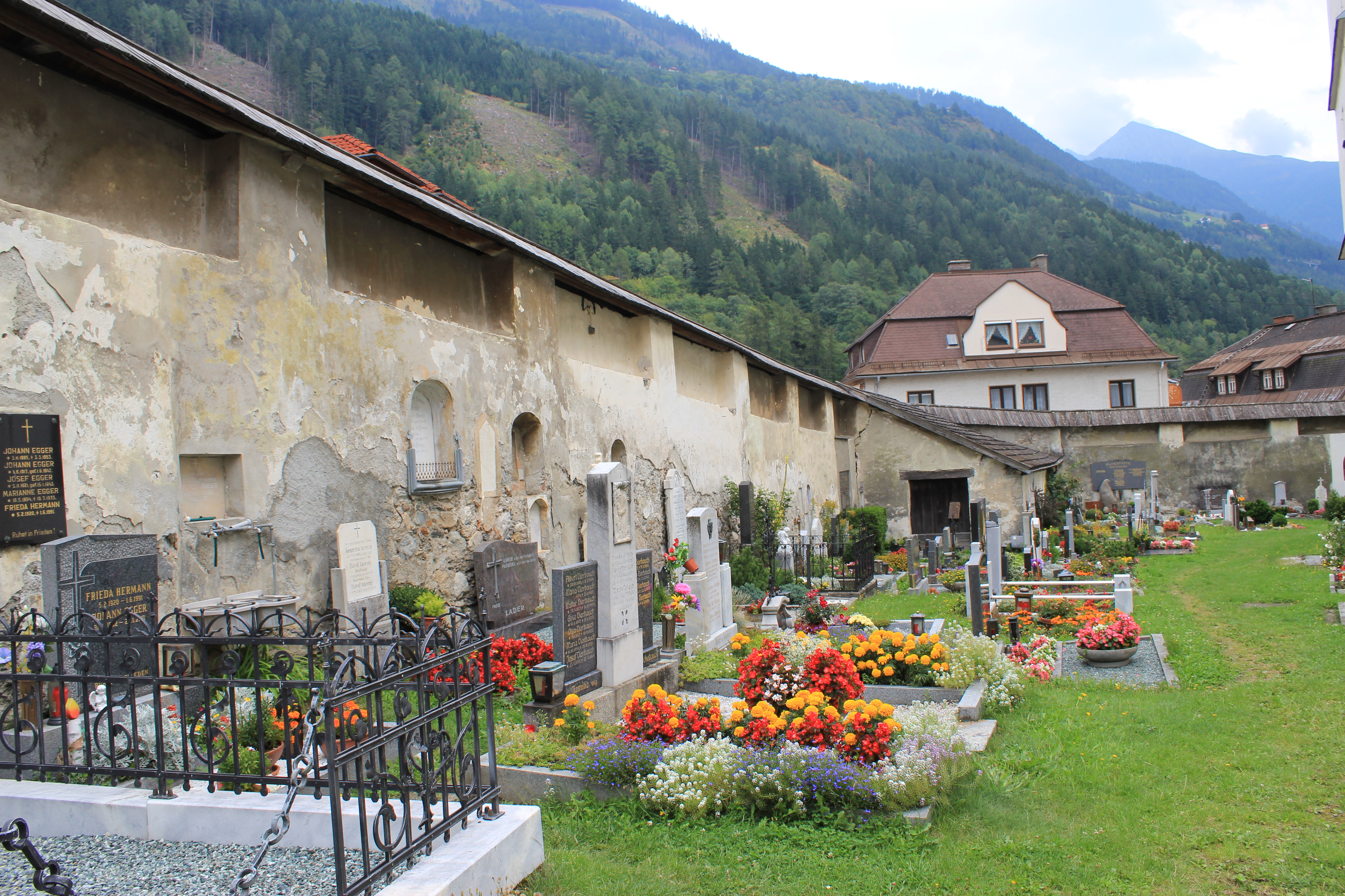 Graveyard in Obervellach